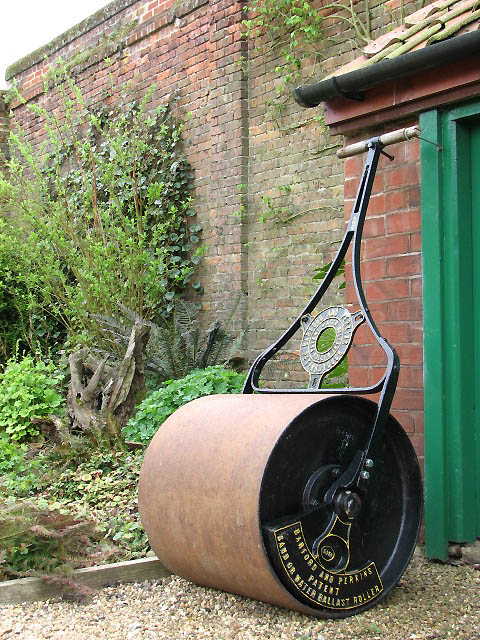 Garden Roller An old sand or water ballast roller, on display in the Spider Garden.